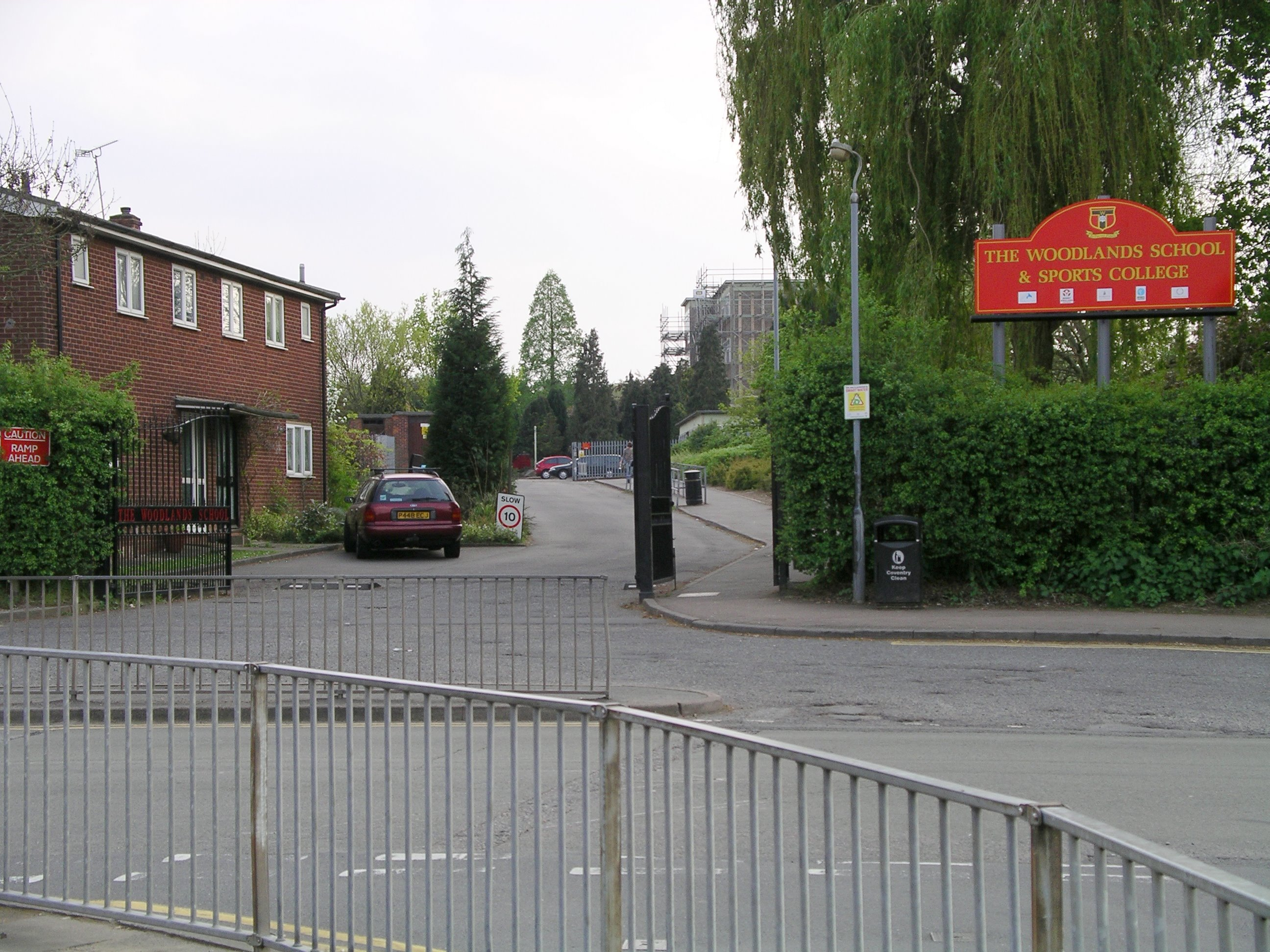 Photo taken by me on 26 April 2007 of Woodlands School, Coventry, Westmidlands. Picture taken from outside the school gates.